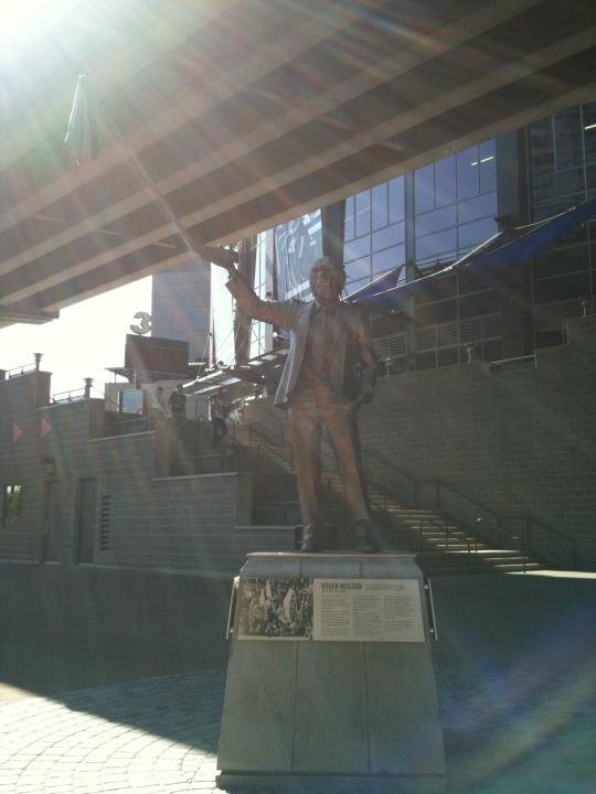 Statue of Roger Neilson outside of Rogers Arena, Vancouver, BC